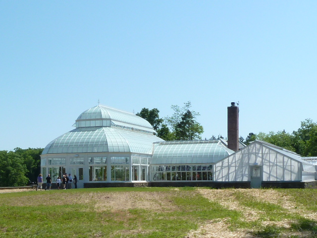 Duke Farms, Orchid Range Building